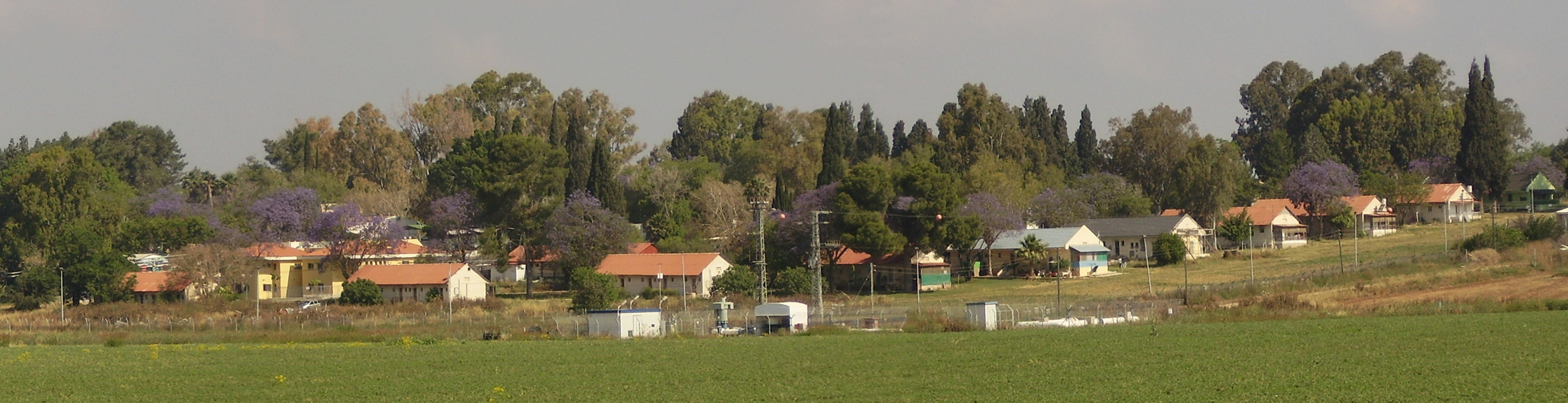 The Shaar Menashe mental health center, near the city Hadera, Israel, May 15, 2006; from south